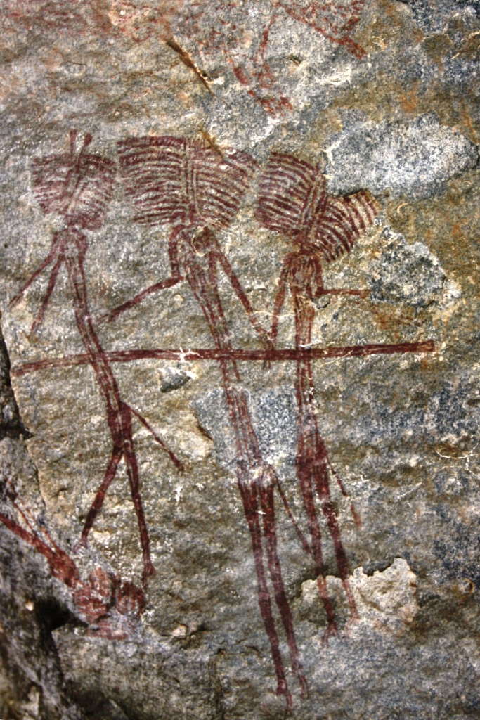 Rock paintings at Kondoa, Tanzania 2012